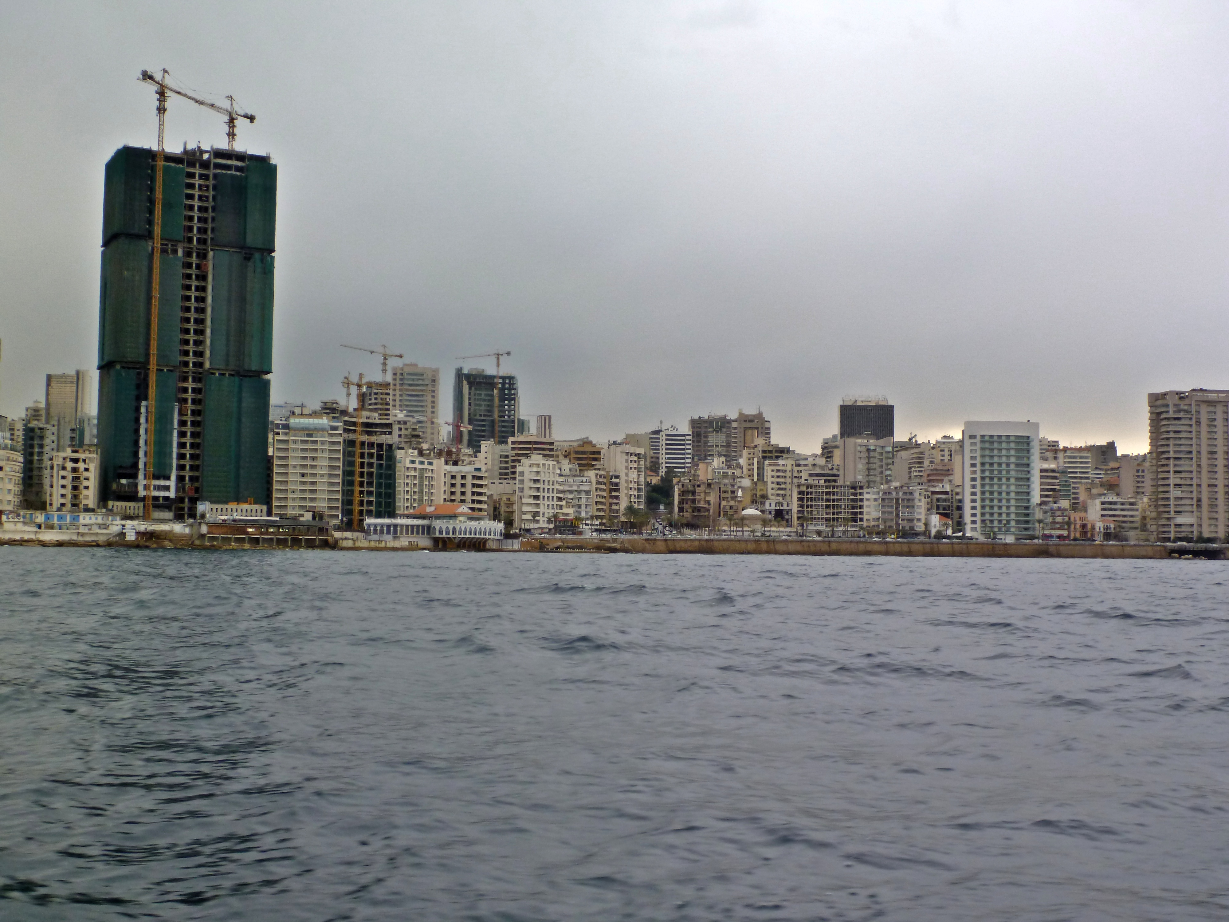 View from sea to the seafront for Beirut and the Corniche